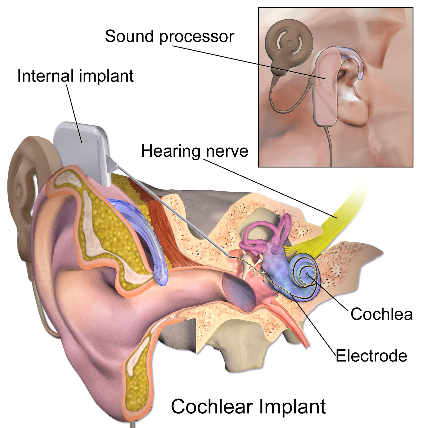 Cochlear Implant. See a full animation of this medical topic.